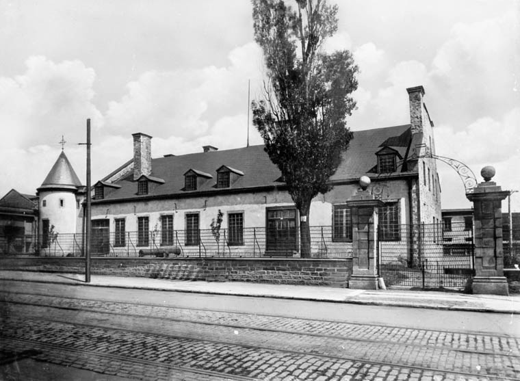 Château Ramezay, pictured between 1900 - 1925